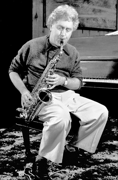 Lee Konitz at Bach Dancing & Dynamite Society, Half Moon Bay CA 11/24/85. Photo: Brian McMillen /